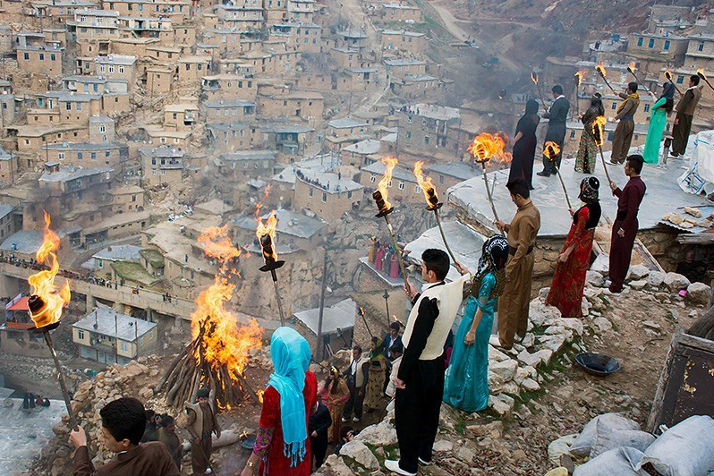 Iranian Kurds celebrating Nowruz in Palangan.